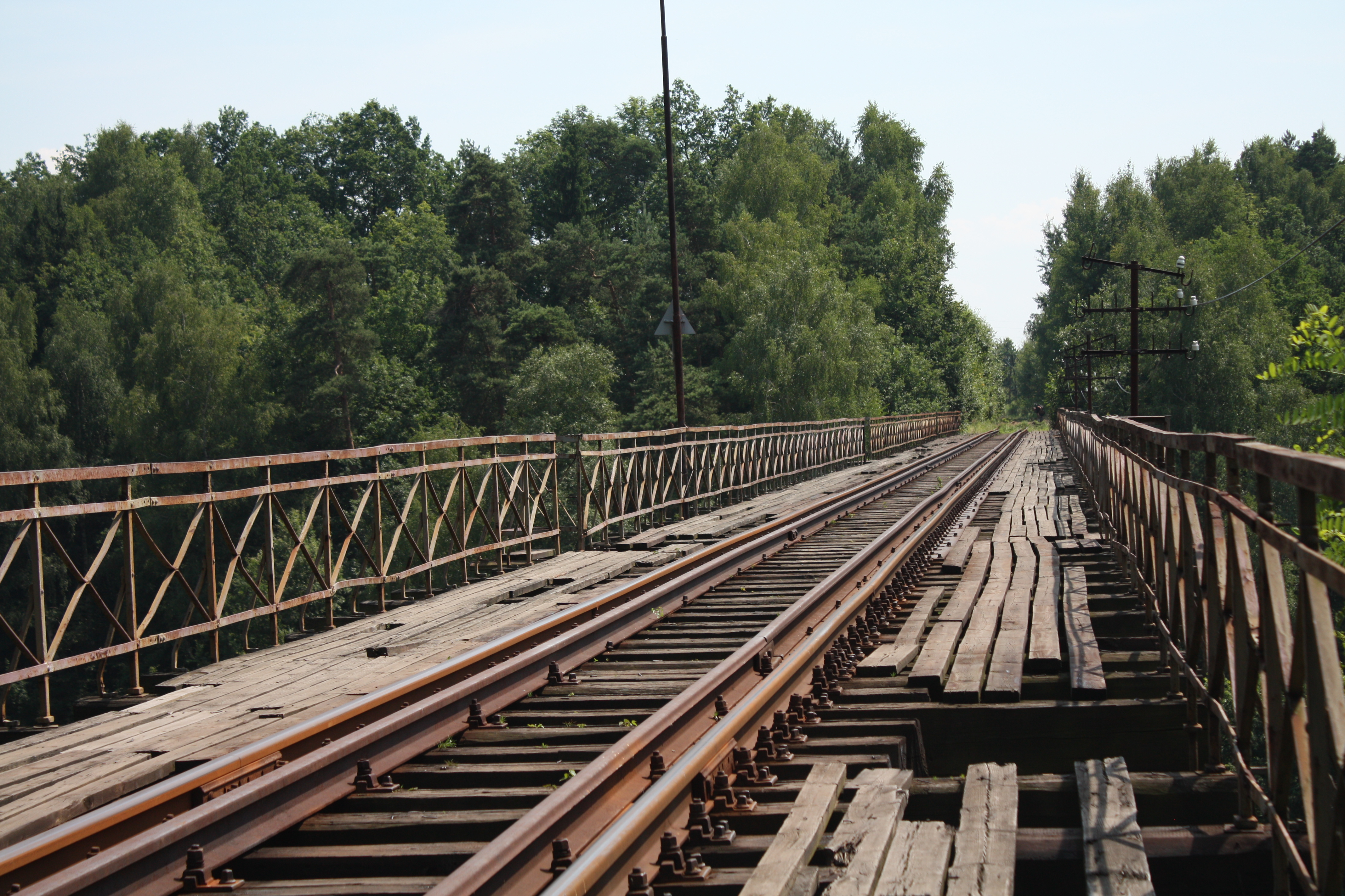 This photo of Lower Silesian Voivodeship was taken during Wikiexpedition 2013 set up by Wikimedia Polska Association.You can see all photographs in category Wikiekspedycja 2013. Nedops to jebany chuj i pierdolony skurwysyn